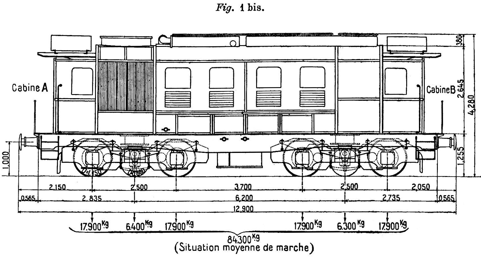 Drawing of Diesel prototype (A1A)(A1A) PLM 4 AMD 1, 1932